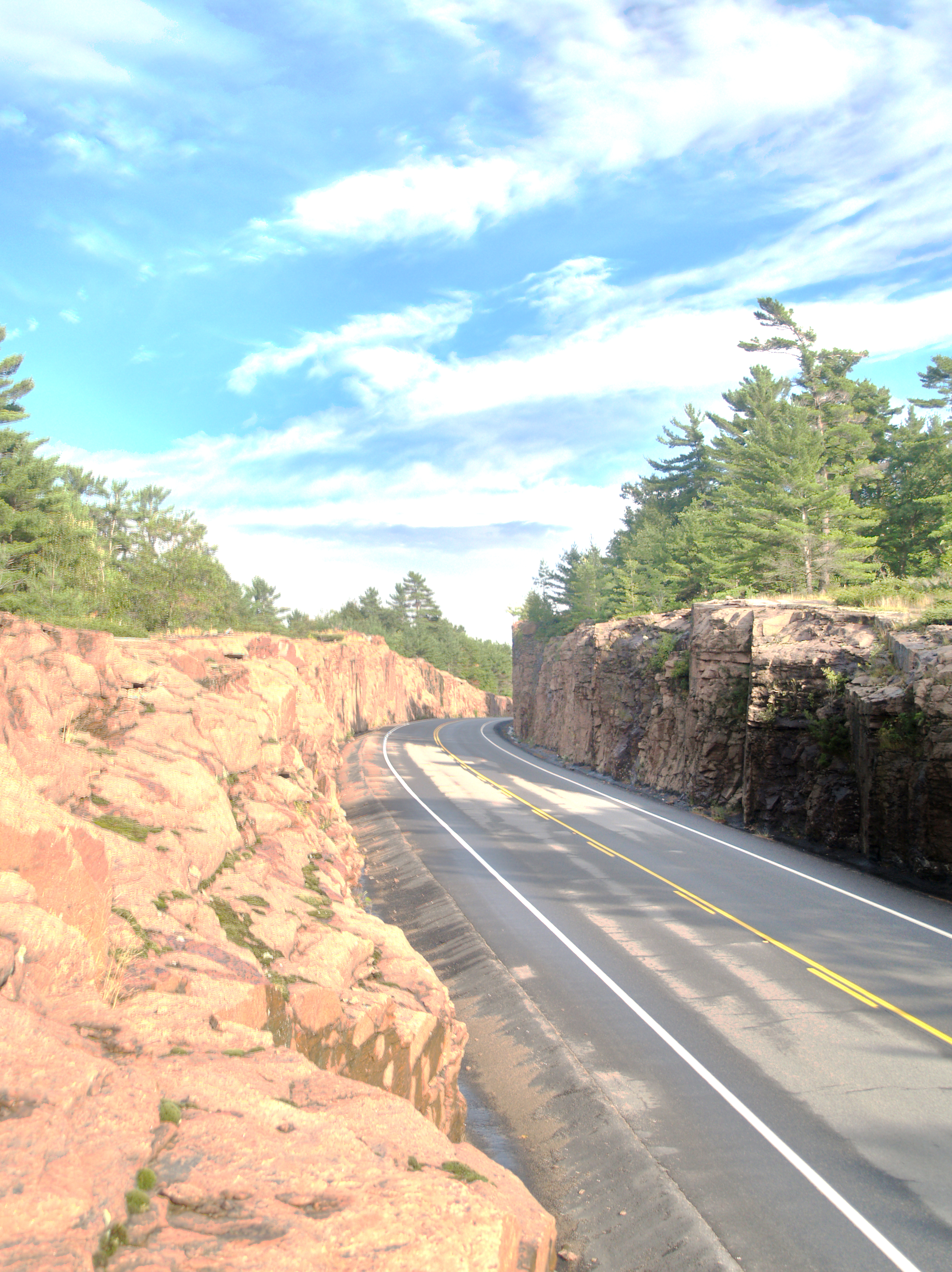 Ontario's longest rock cut (with exception to the single sided cuts on Highway 400 south of Parry Sound) is located on Highway 118 between Milford Bay and Port Carling, in the Muskoka region. HDR from three exposures.